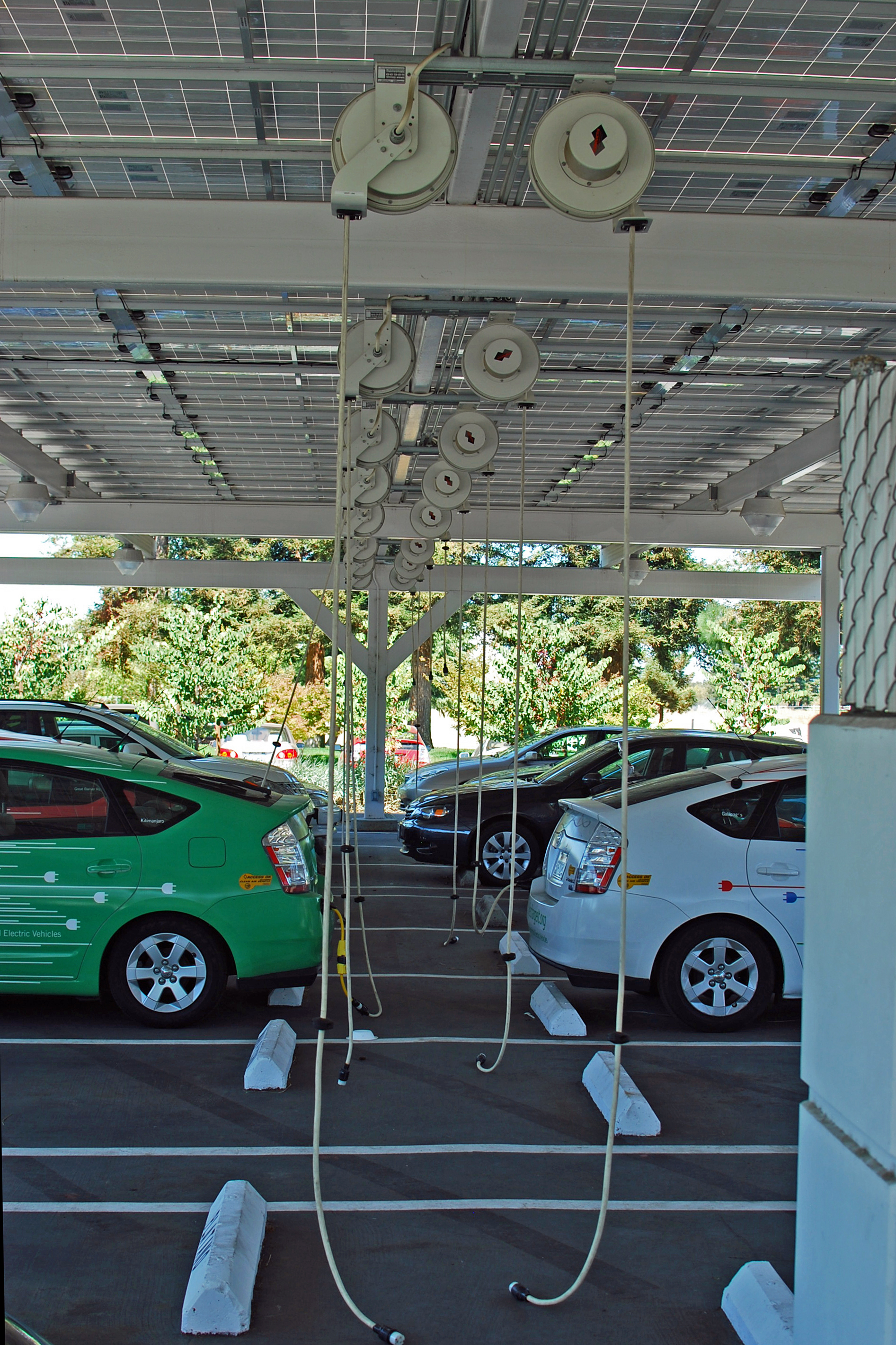 Recharging infrastructure at at Google's Mountain View (California) campus used by fleet of converted plug-in hybrids